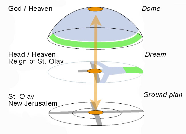 Relationship between house and dream in Rauðúlfs þáttr.